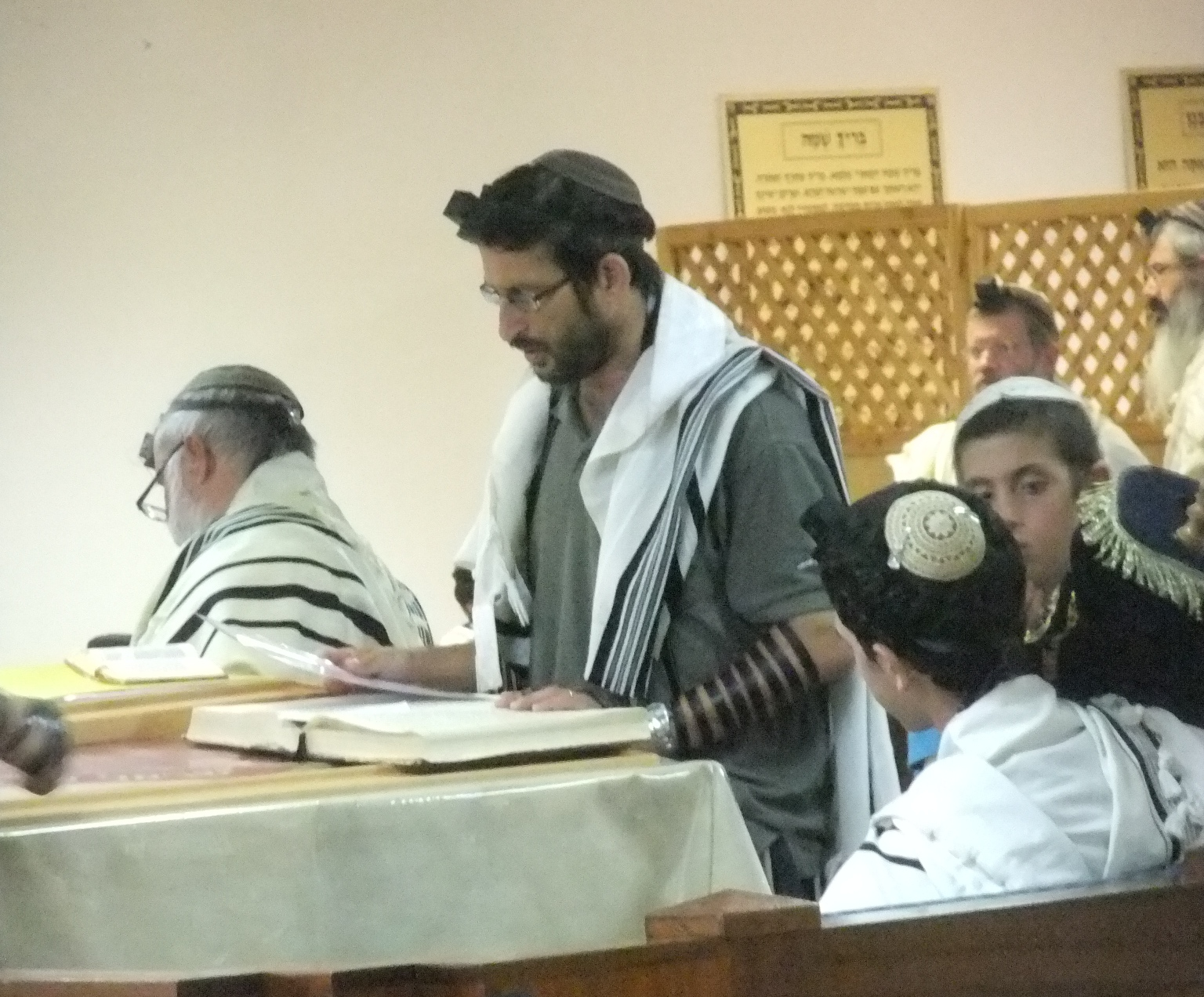 Reading the Haftara at Mincha Tisha Bav at the shool in Ofra. The reader is holding the blessing and the bible is open with the reading in Isaah. The Torah scroll is held on the right.